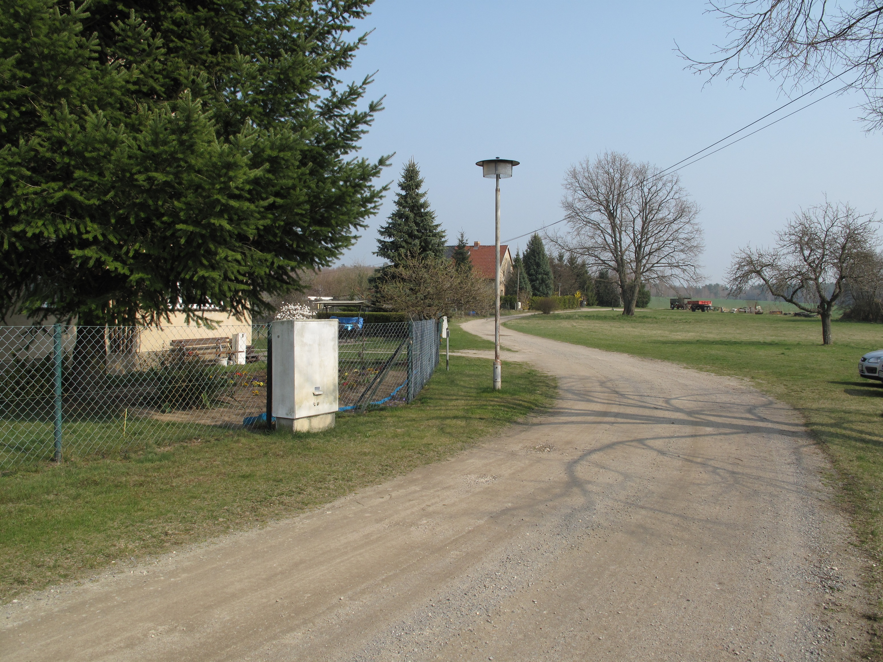 Annenhof is a part (settlement, estate; german: Wohnplatz) of Bad Saarow, District Oder-Spree, Brandenburg, Germany. The former folwark of the manor Pieskow was first mentioned in 1844 and is situated approximately 3 kilometers east of the Scharmützelsee.